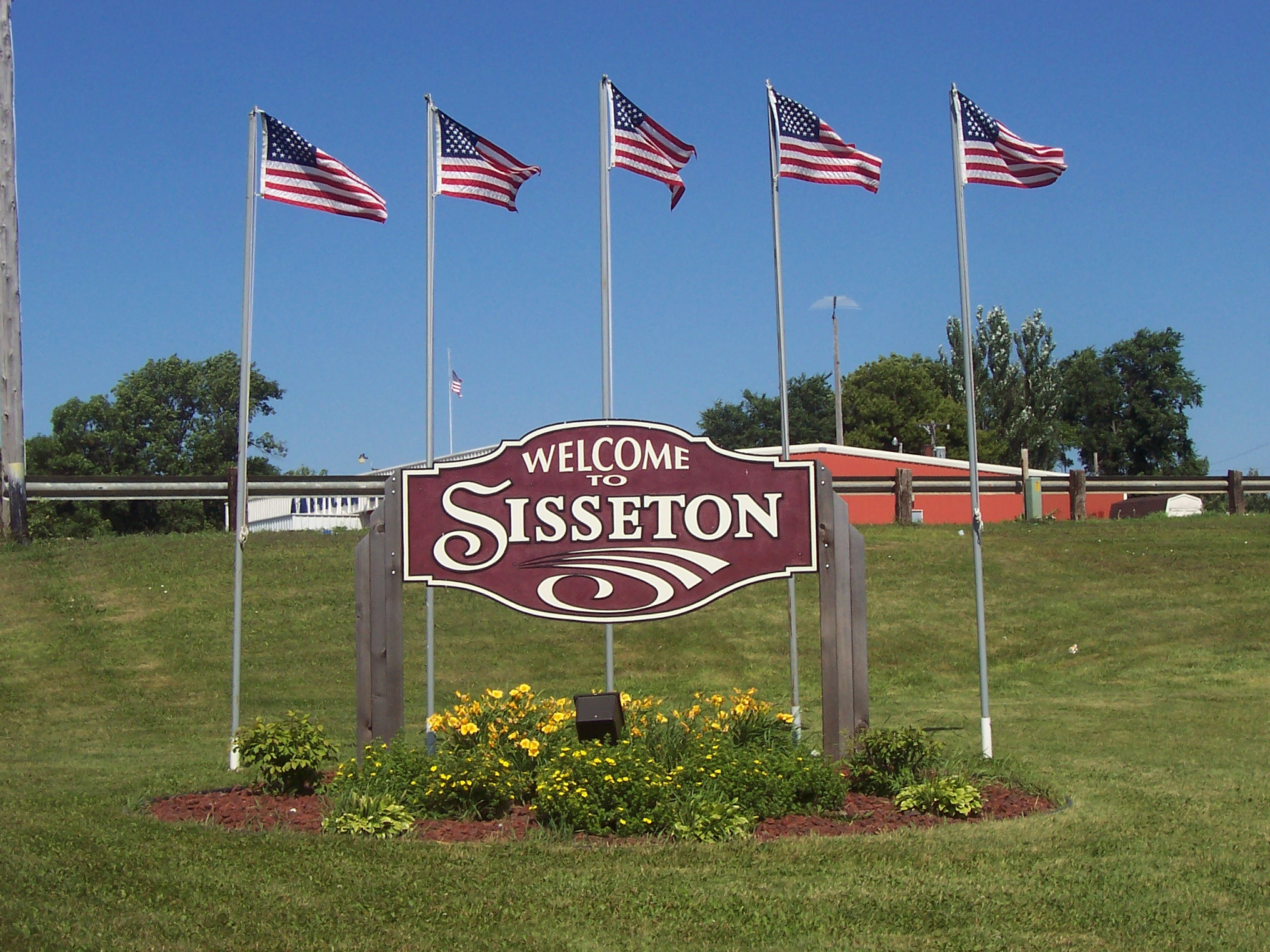 The welcome sign to Sisseton, SD.